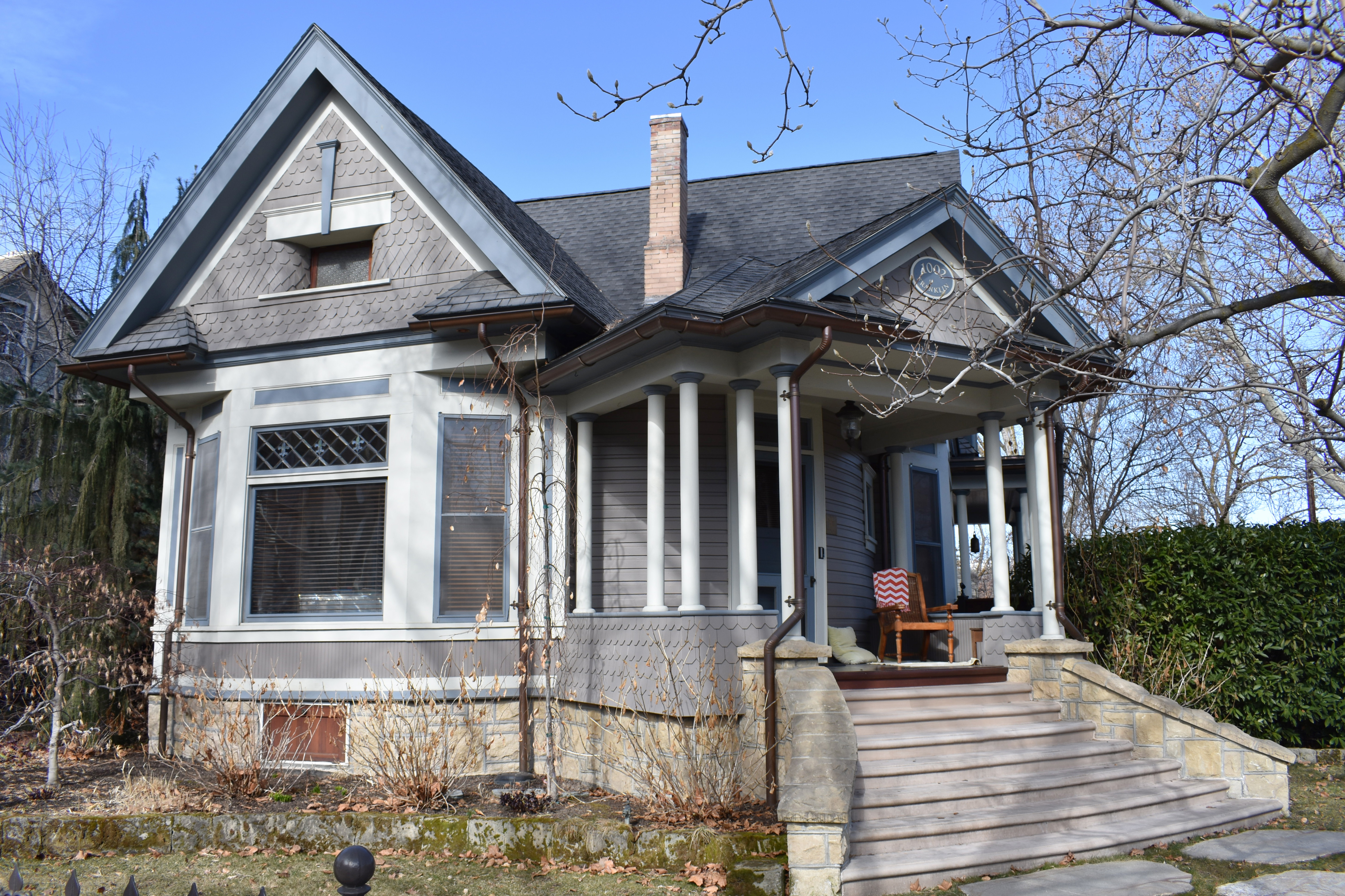 The J.M. Johnson House (1898) in Boise, Idaho, was designed by John E. Tourtellotte and is listed on the National Register of Historic Places.